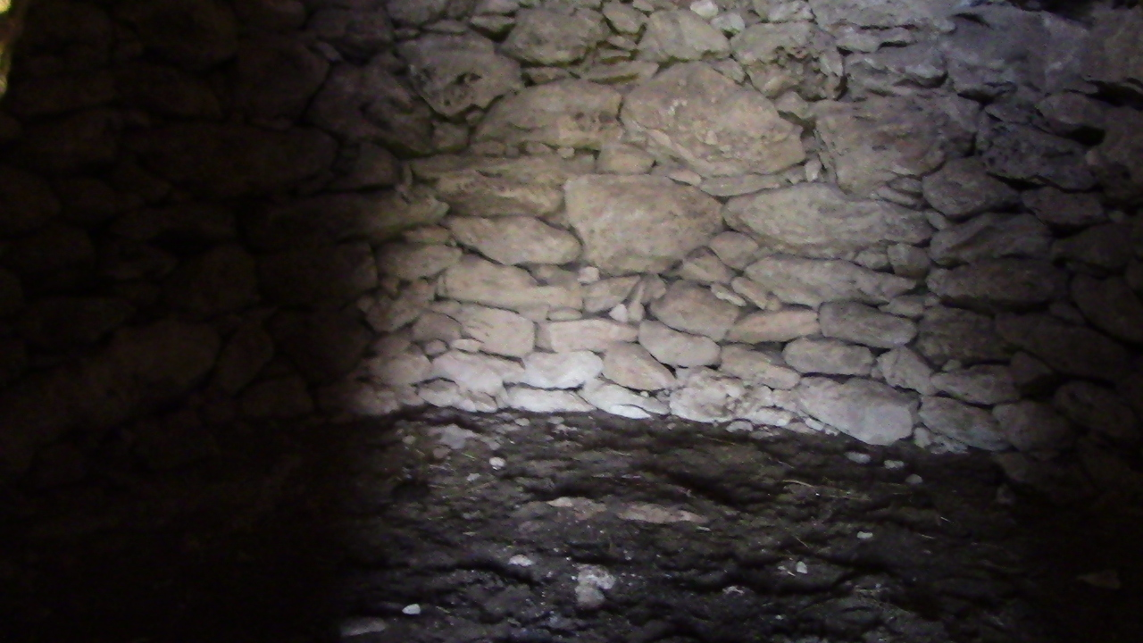 A Tazota interior, Municipality of Sidi Abed, Province of el-Jadida, Morocco